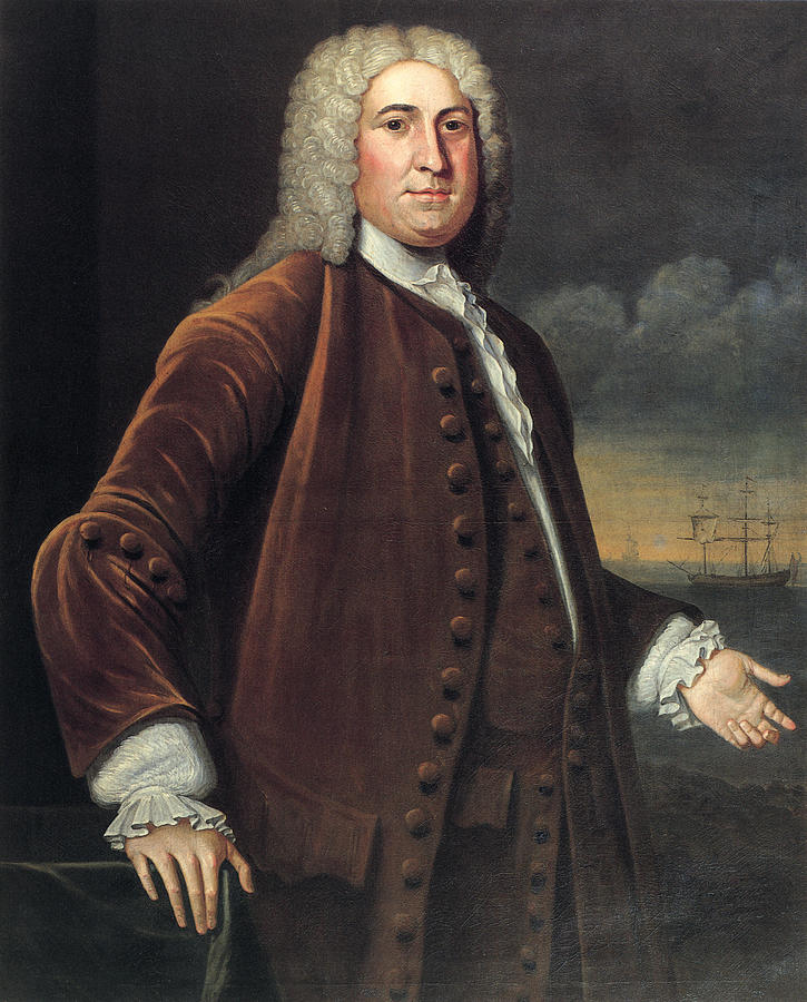 Peter Faneuil by John Smibert, 1739